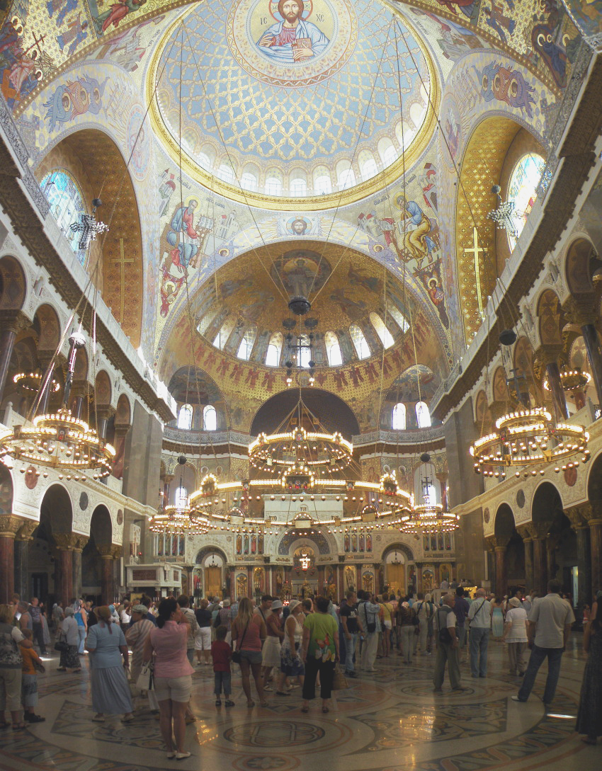 Marine_Nicolaus_kathedral_interiour.Kronstadt